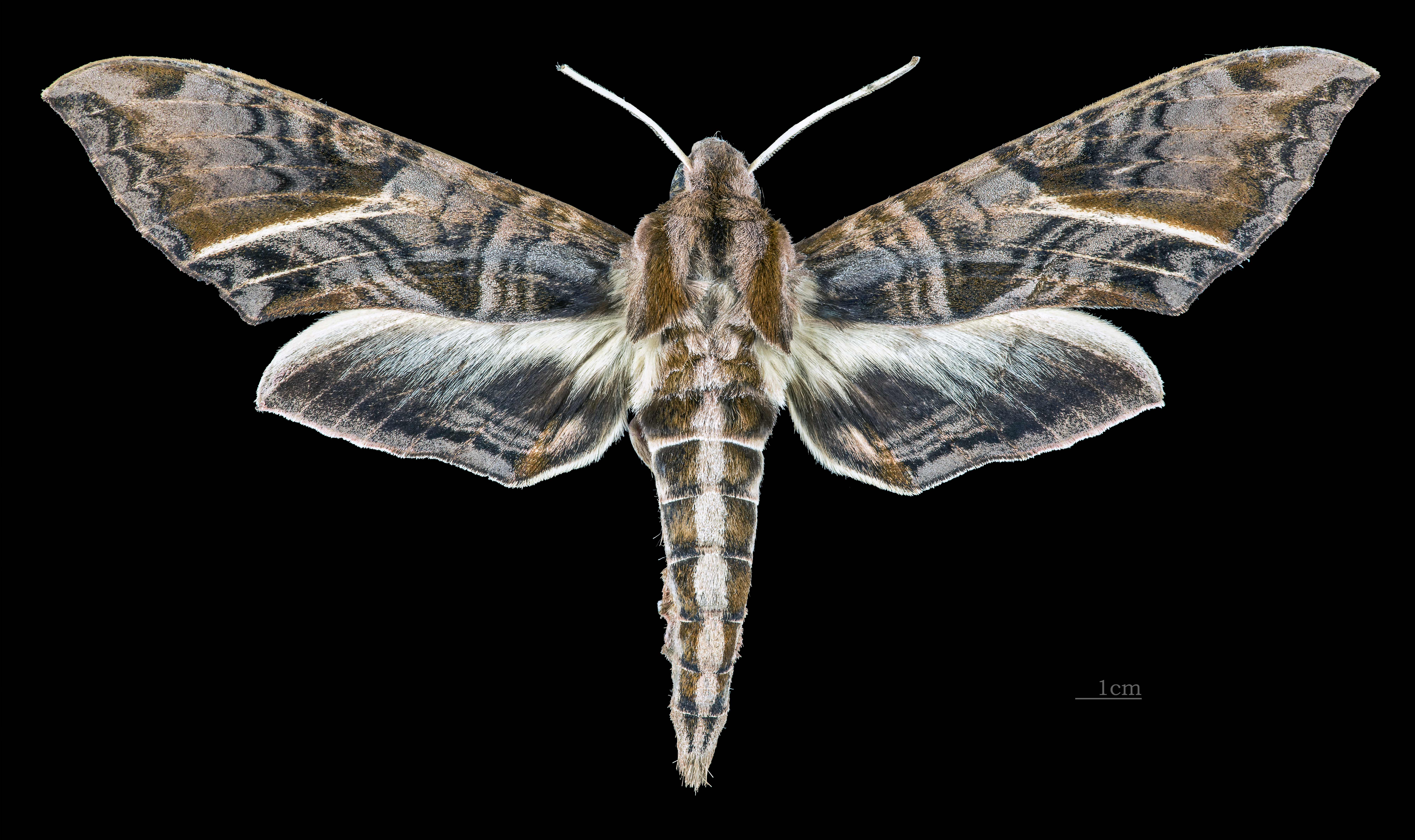 Eumorpha neuburgeri - Dorsal side Collection of the Mathematician Laurent Schwartz